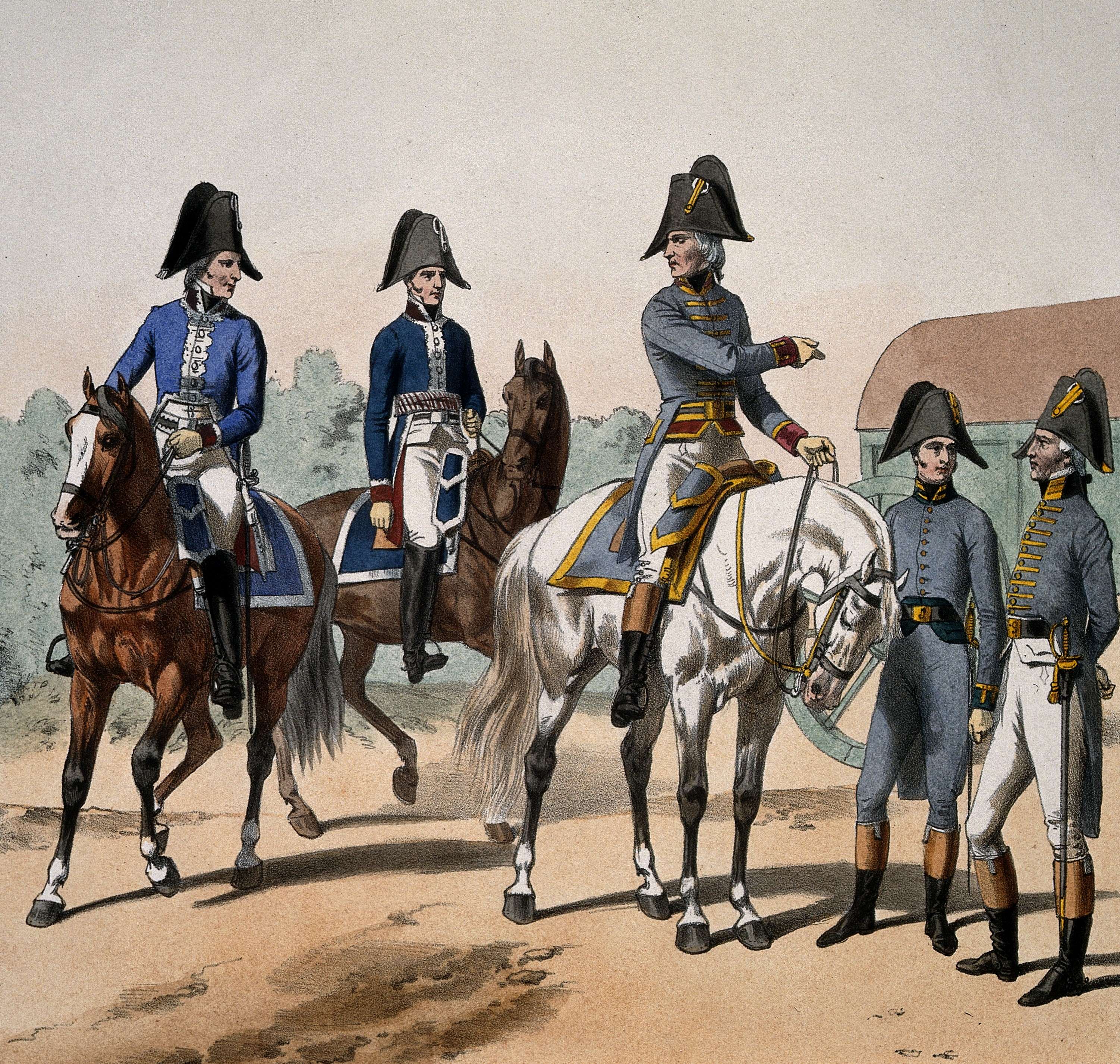 Five senior French army staff in military dress, including the chief surgeon, pharmacist and doctor, c. 1804. Coloured lithograph by G. David after A. de Marbot. Iconographic Collections Keywords: Alfred de Marbot; Gustave David